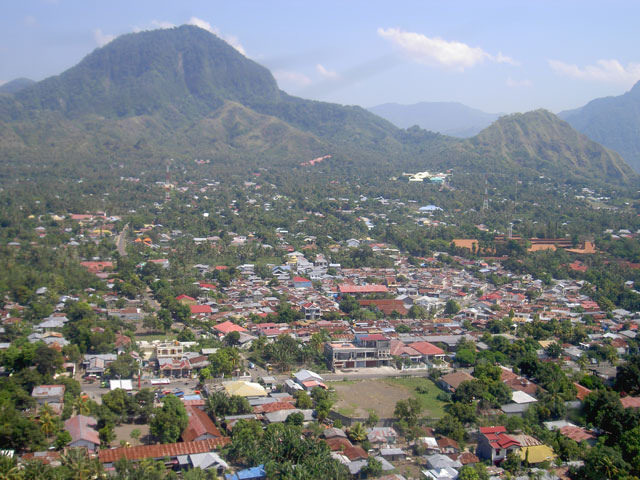 Shortly after takeoff, H Aroeboesman Ende Flores (ENE/WATE), Trigana Air ATR42-300